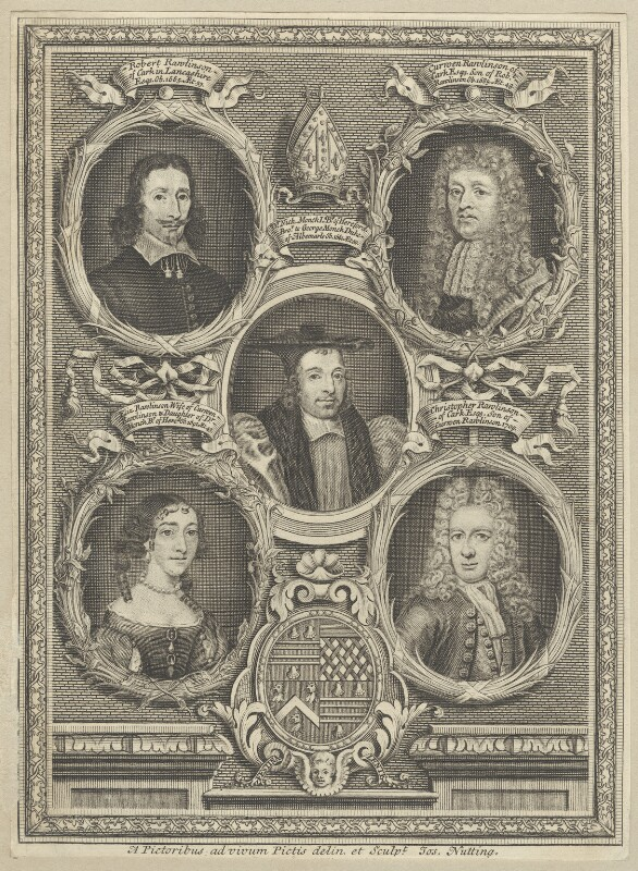 Engraving of Nicholas Monck and the Rawlinson Family, By Joseph Nutting, early 18th century. Christopher Rawlinson (1677–1733) of Carke Hall in Cartmell, Lancashire, antiquary, is at bottom right, his mother Elizabeth Monck at bottom left, his father Curwen Rawlinson at top right, his paternal grandfather Robert Rawlinson of Carke at top left and his maternal grandfather Nicholas Monck, Bishop of Hereford in centre. The oval escutcheon below shows arms quarterly of four: 1&4: Gules, two bars gemelles between three escallops argent (Rawlinson); 2: Fretty, a chief (?); 3: Gules, a chevron between three lion's heads erased argent (Monck). Line engraving, early 18th century. 7 7/8 in. x 5 3/4 in. (200 mm x 146 mm) paper size. National Portrait Gallery, London, NPG D29541